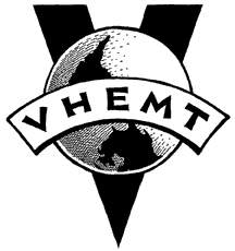 VHEMT's logo features the letter "V" (for Voluntary) and an inverted Earth. VHEMT states that the inverted Earth represents the radical shift in human direction the movement seeks, and notes that upside down emblems are often used as symbols of distress.Symbolism of the logo for the Voluntary Human Extinction Movement. Licensed as Creative Commons Attribution 3.0 United States License at .